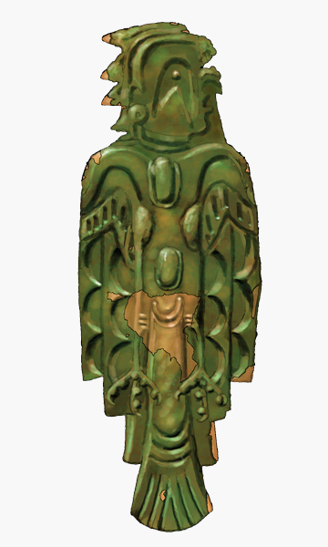 A Mississippian culture human head avian repoussé copper plate from the Spiro Mound site in Oklahoma.